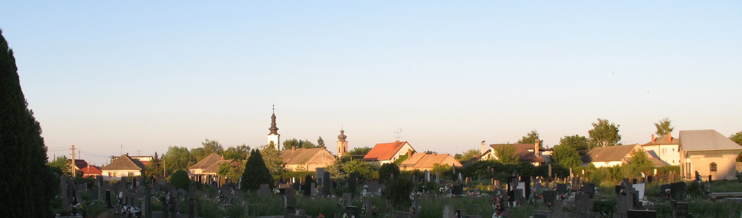 Vľčany cemetery